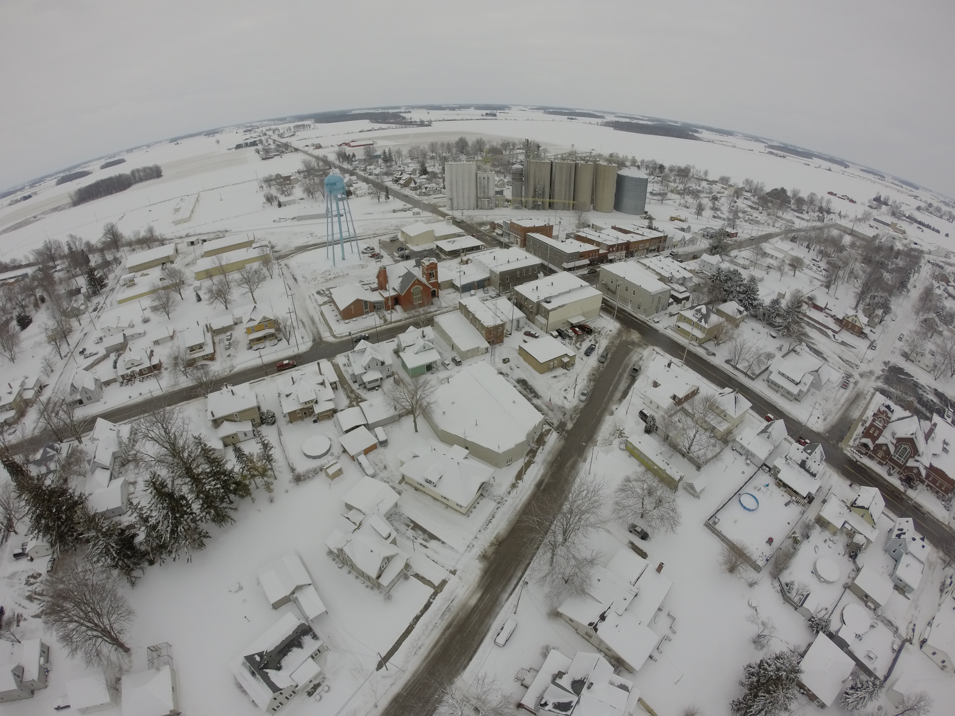 Conway Ohio Winter 2015 from drone